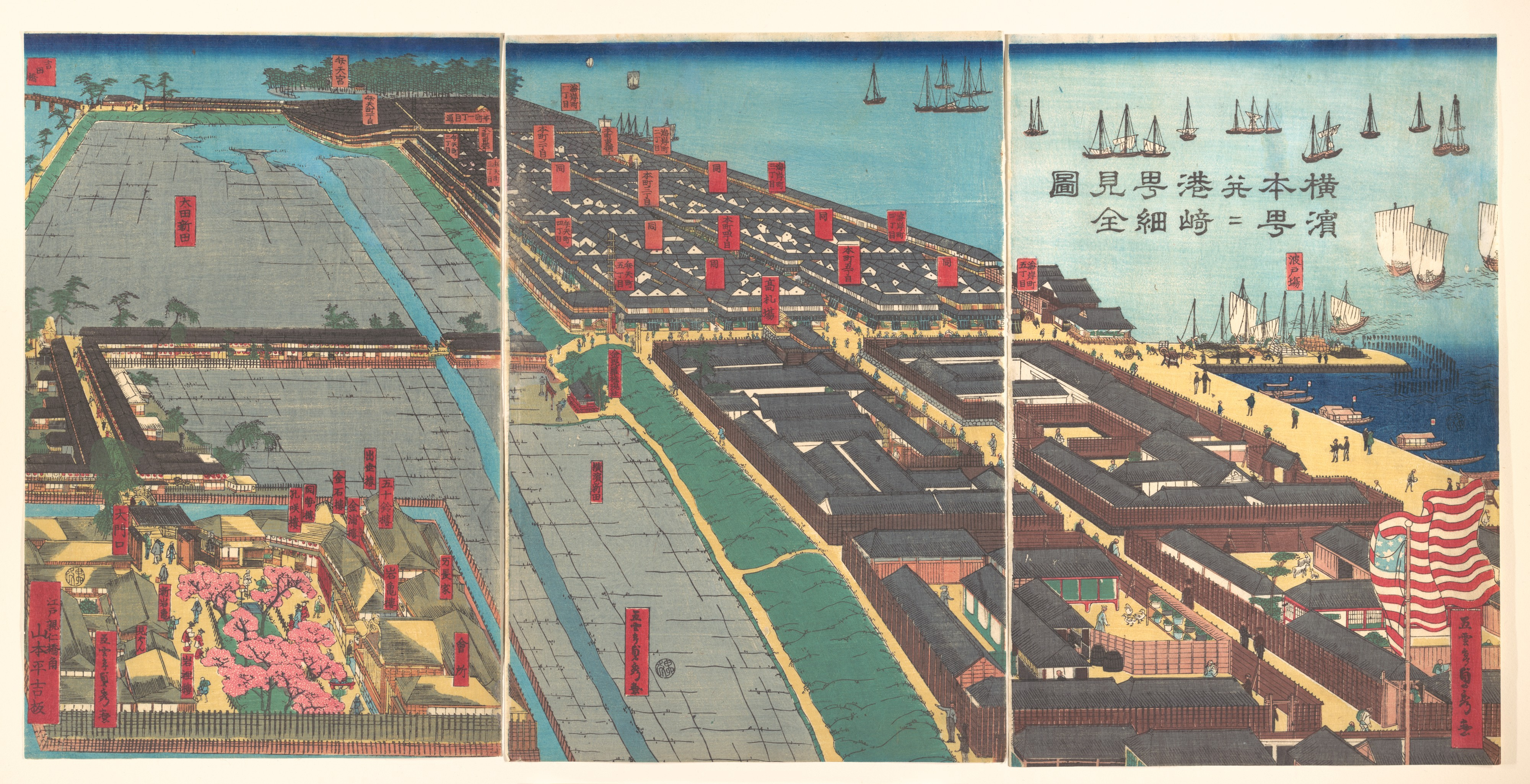 Detailed Print of Yokohama Hon-chō and the Miyozaki Pleasure Quarter